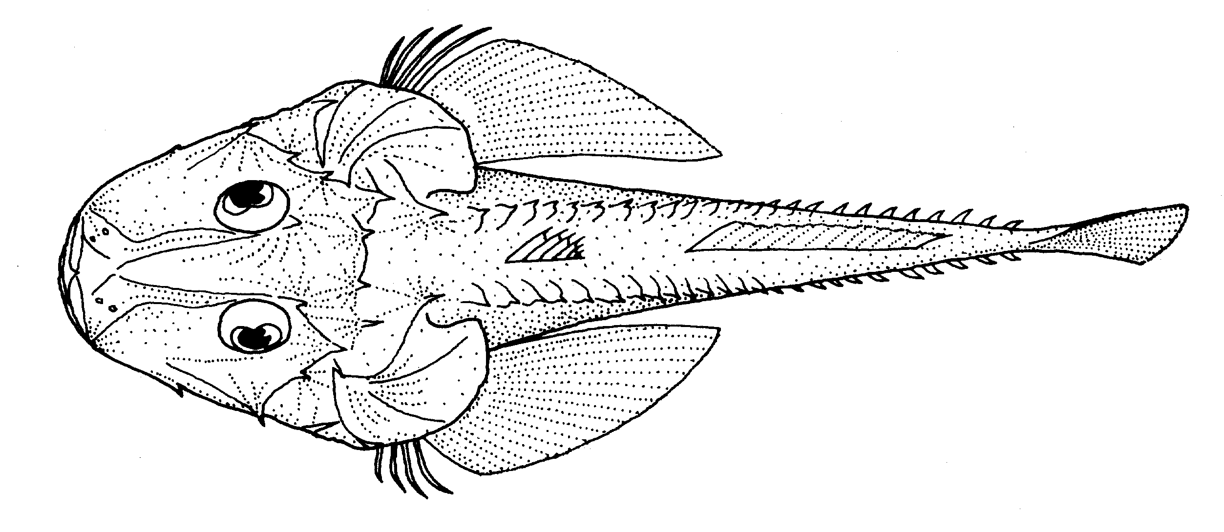 Hoplichthys haswelli (Armoured flathead)